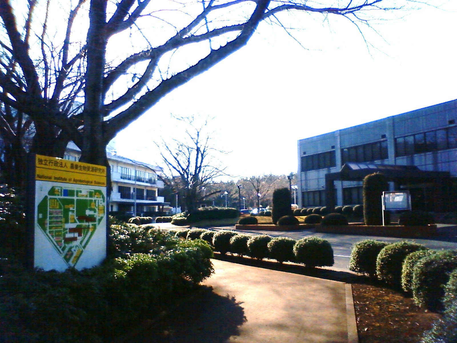 This is the building of National Institute of Agrobiological Sciences(NIAS) in Japan.